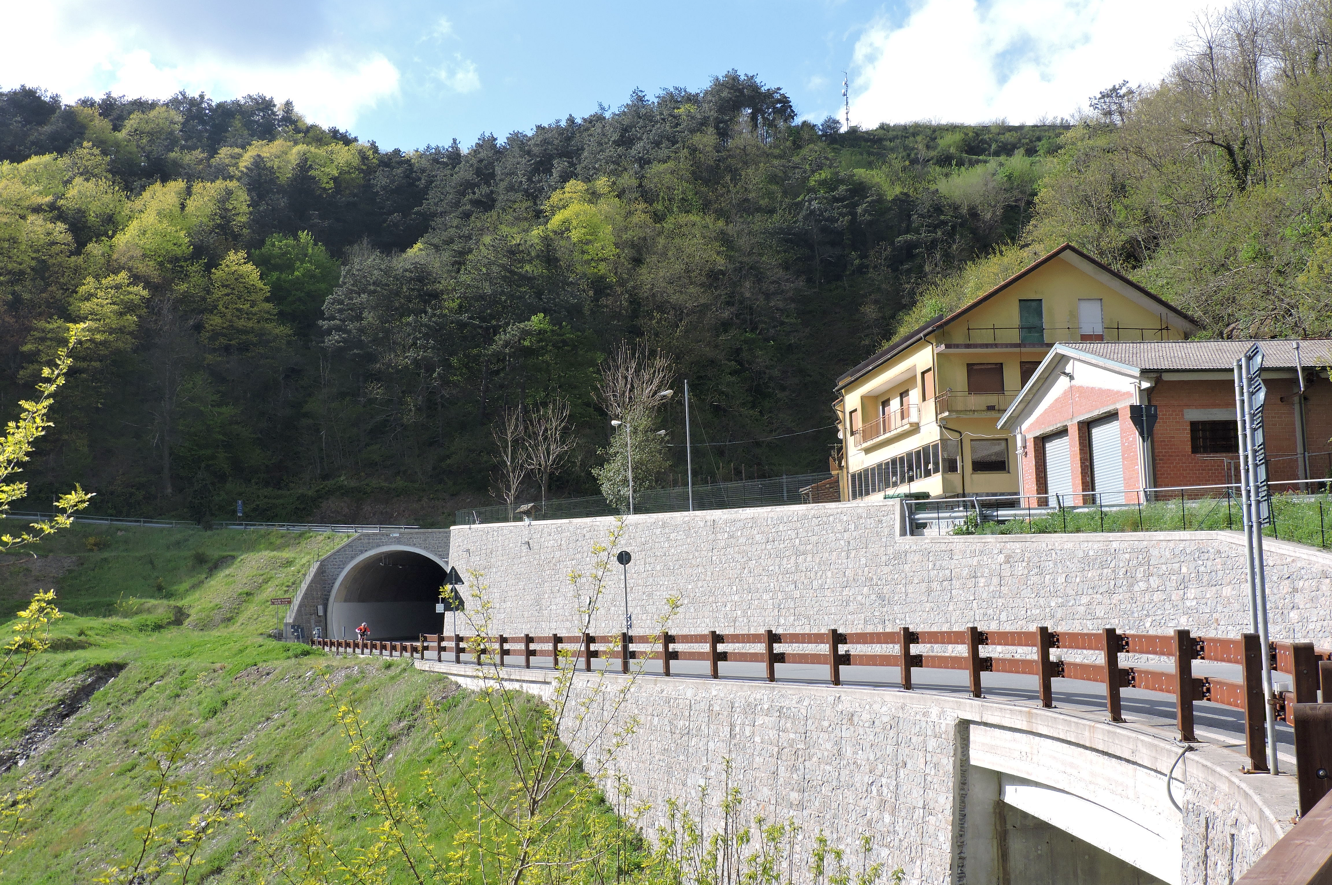 Passo del Turchino (Ligurian Apennine, Italy): new tunnel